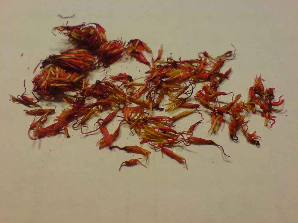 This is "turkish safron", as bought on a bazaar in Alanya, Turkey. I suspect it to be Carthamus tinctorius, Safflower.